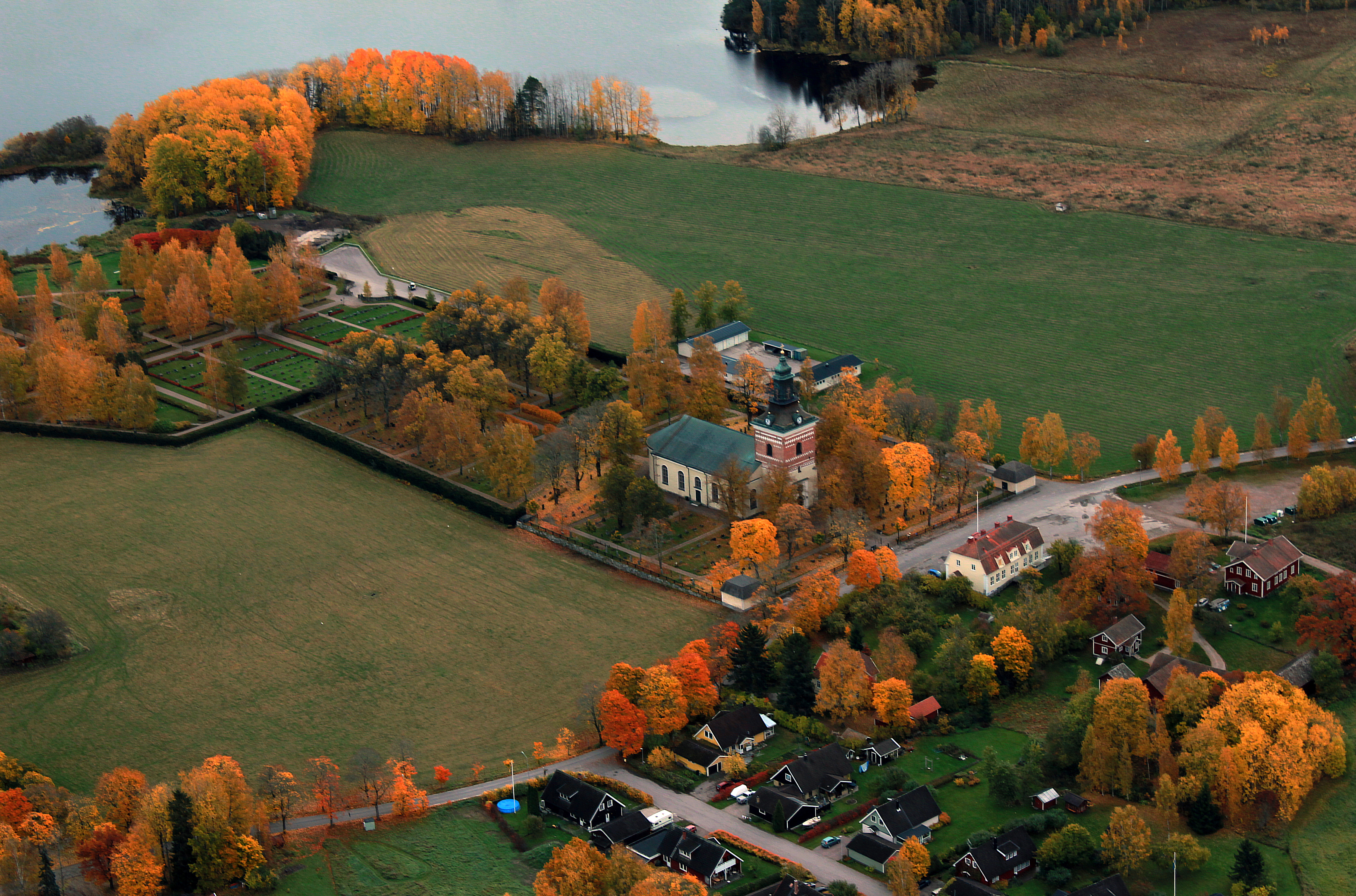 Folkärna (Lund), Avesta Municipality, Sweden. Folkärna church, lake Bäsingen (part of river Dalälven).